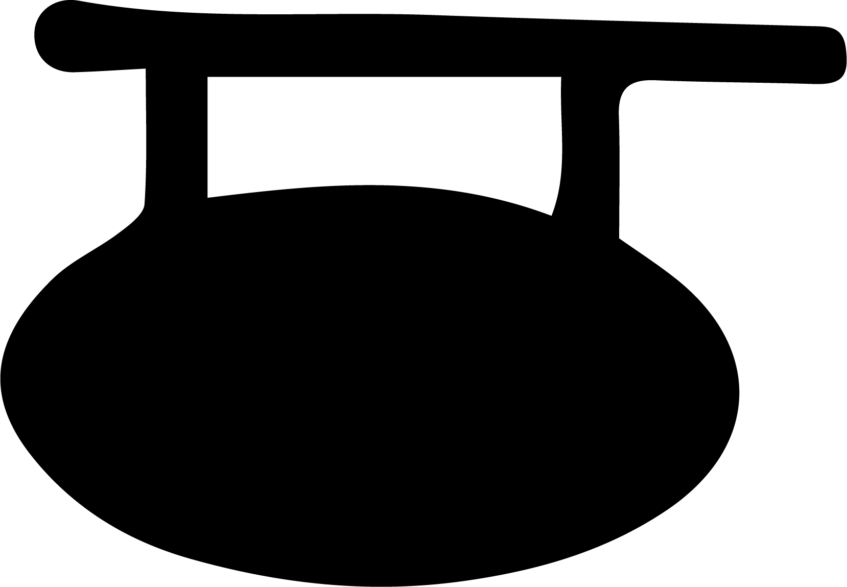 Symbol of the Diagon Alley expansion of the Harry Potter Trading Card Game